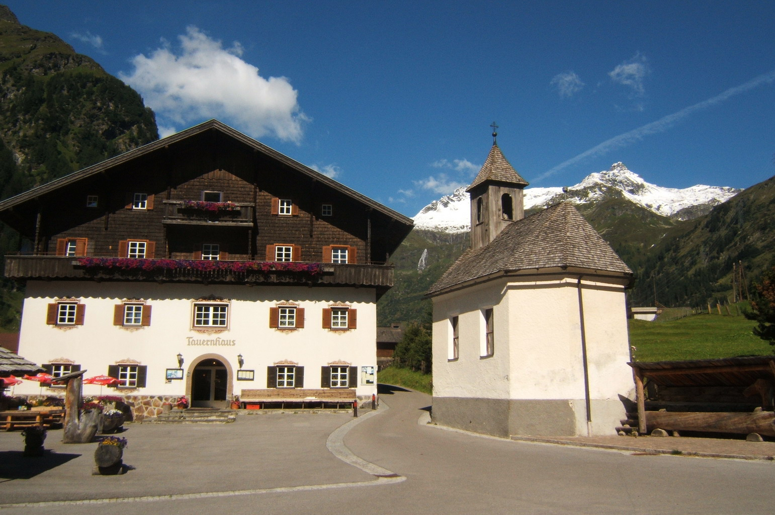 The Matreier Tauernhaus near Matrei in Osttirol, in the background the Dichtenkogel (2839m)